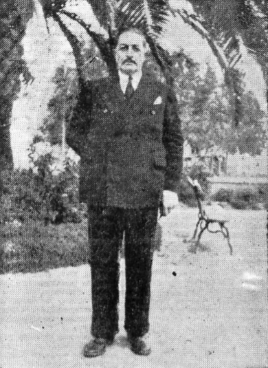 José María Ruano